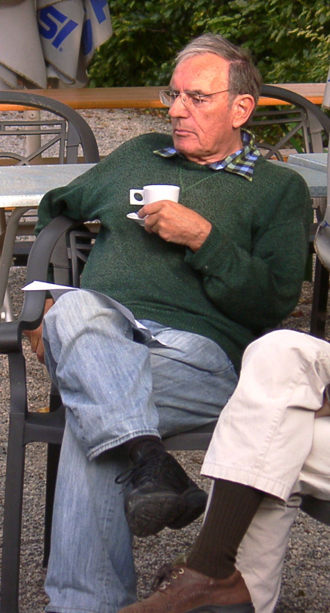 Adam Dziewoński, Schlosshotel Linderhof